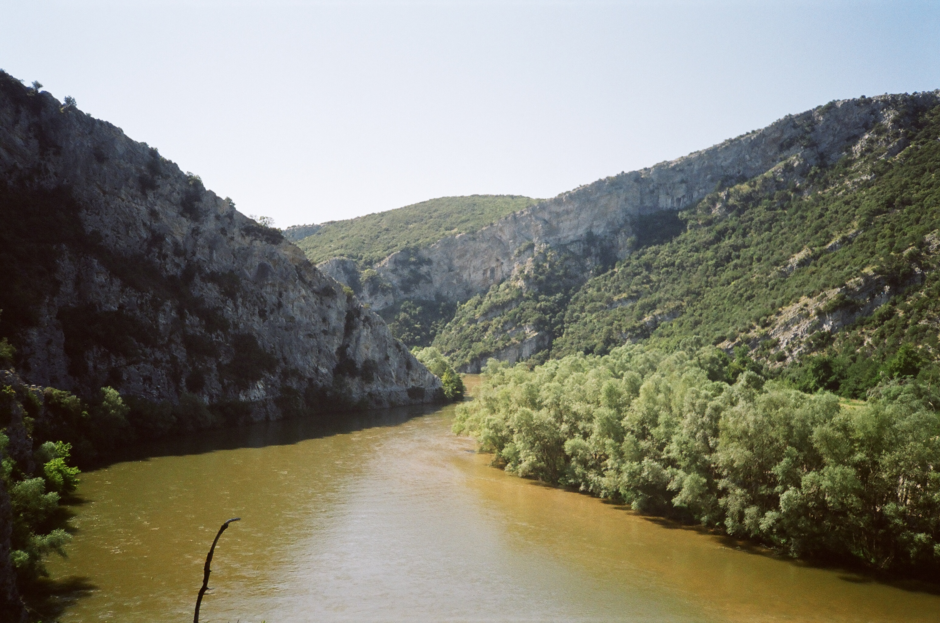 photo by Yiannis Papachatzakis